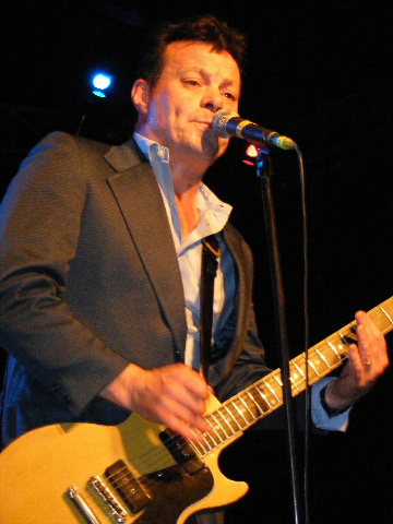 James Hunter and his band at La Zona Rosa in Austin, Texas Photo: Ron Baker.